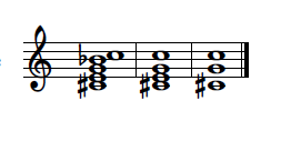 Three beta chords on C#